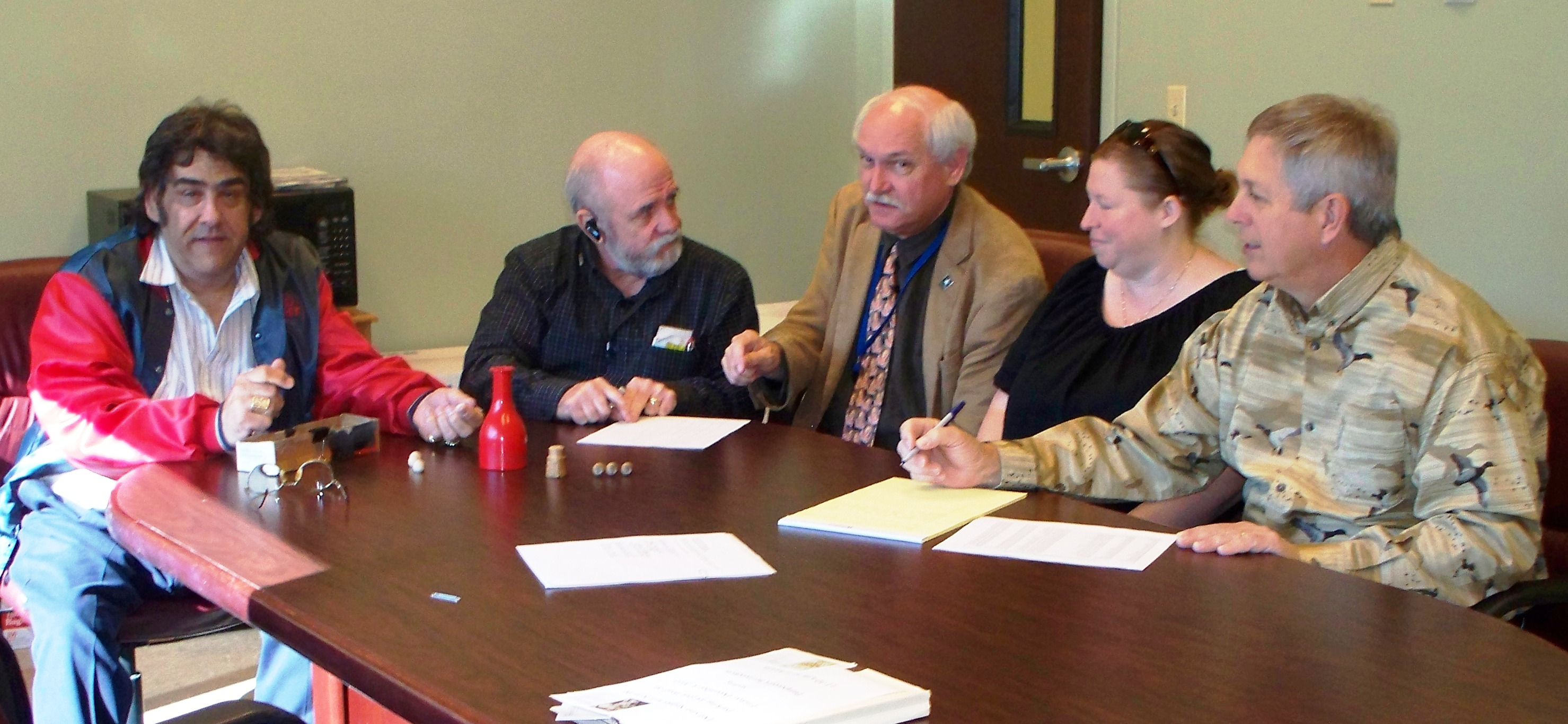 Tangipahoa Parish Board of Election Supervisors meeting, Amite, Louisiana. Left to right: James "Rube" Ardillo (Democratic Party), John Russell (Registrar of Voters), Richard David Ramsey (Republican Party), Cindy Benitez (Governor's Appointee), Julian Dufreche (Clerk of Court). These members hold the Board seats statutorily established by the Louisiana Election Code in Louisiana Revised Statutes 18:484.